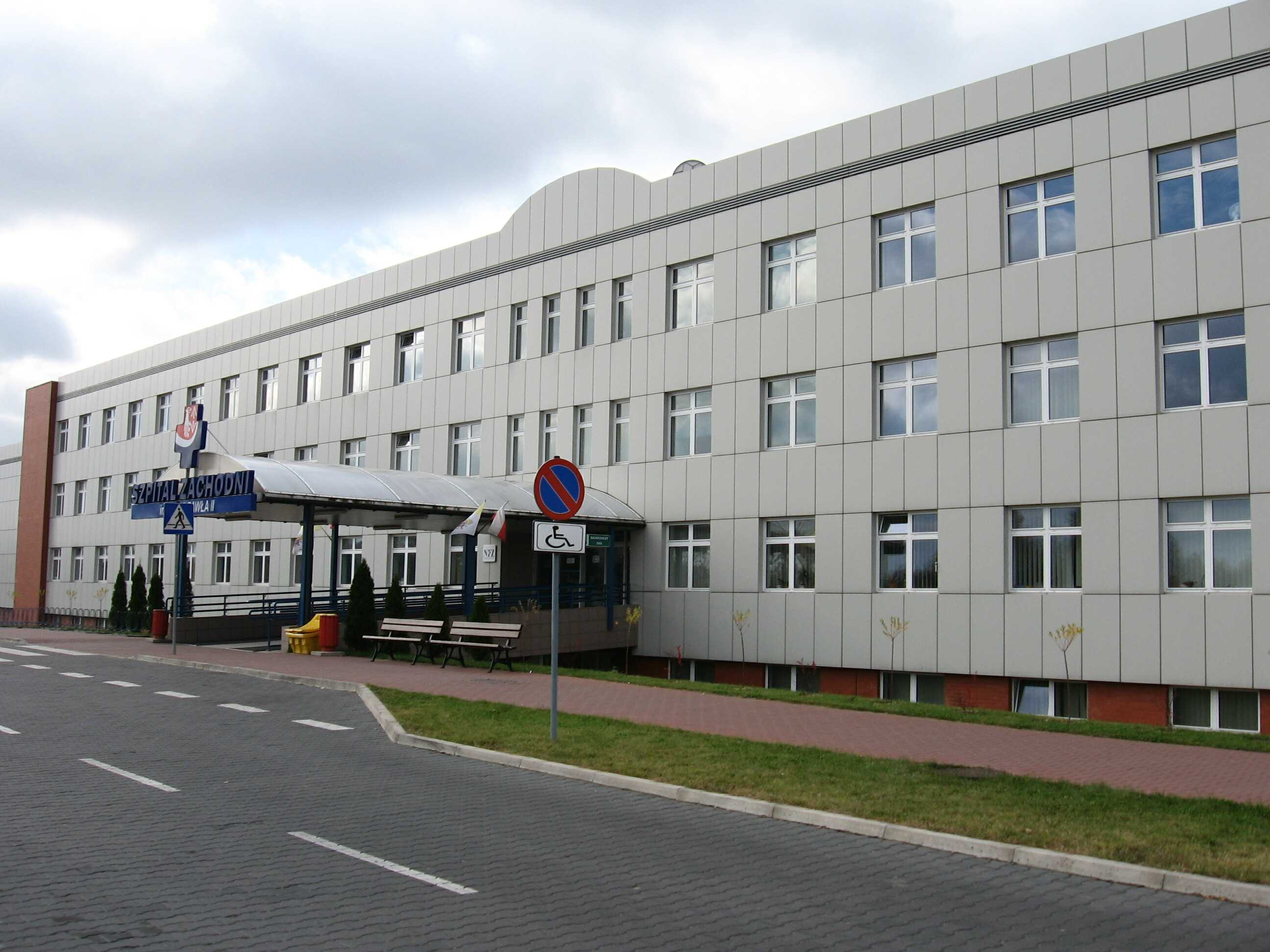 Newly built West Hospital in Grodzisk Mazowiecki.